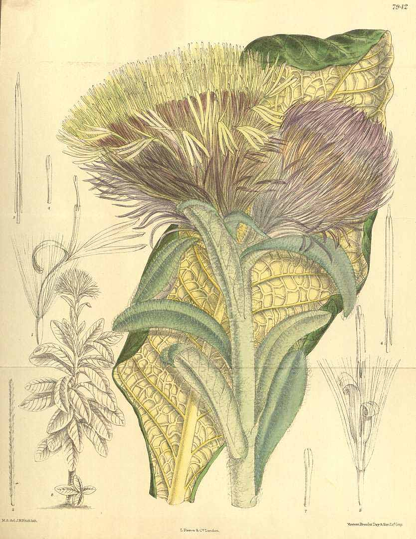 Oldenburgia grandis (Thunb.) Baill. - Oldenburgia grandis (Thunb.) Baillon [as Oldenburgia arbuscula DC.] Curtis’s Botanical Magazine, t. 7932-7991, vol. 130 [ser. 3, vol. 60]: t. 7942 (1904)